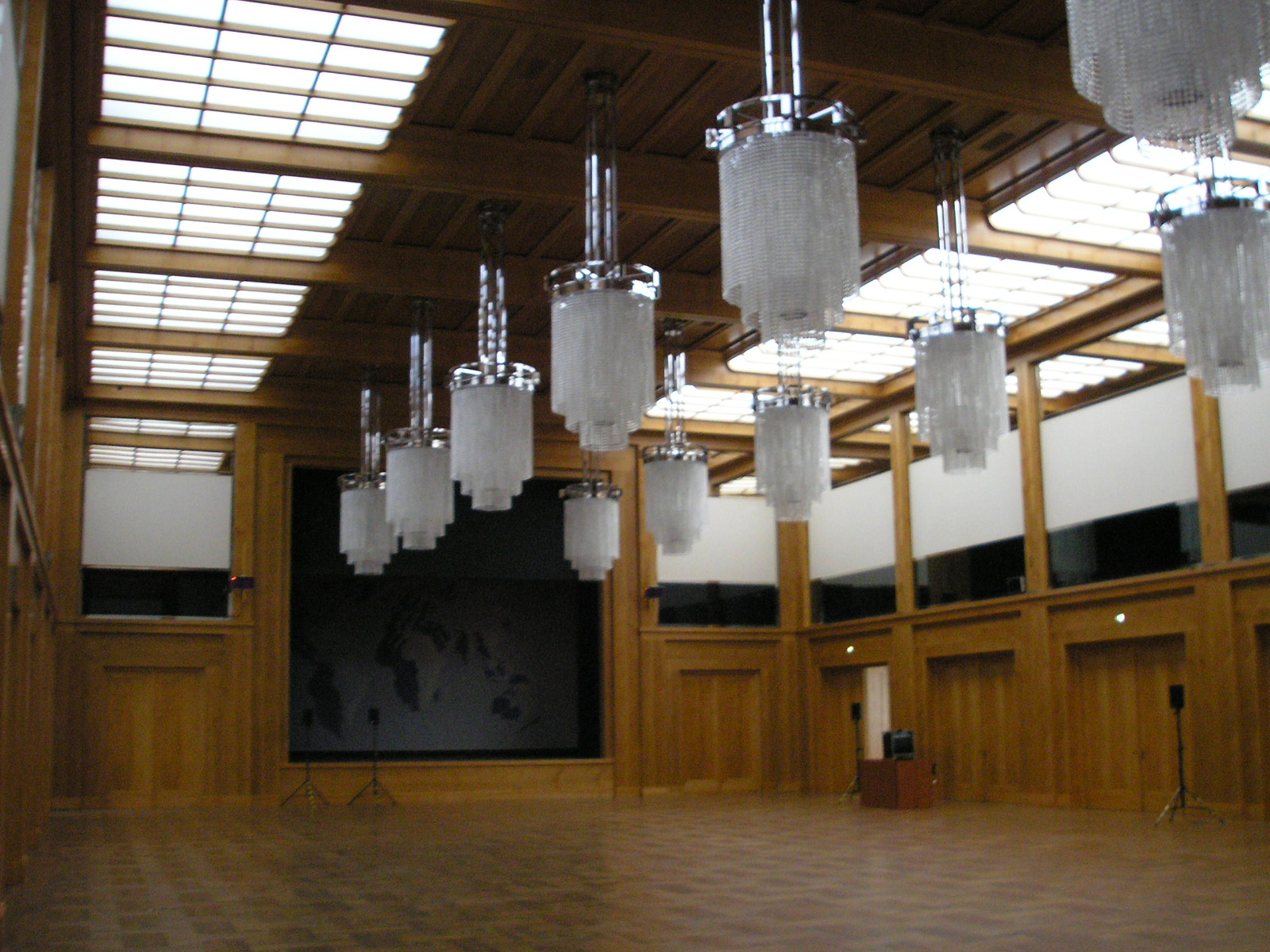 The so-called Weltsaal in the Foreign Office in Berlin, which is former main cashiers hall of the Reichsbank.